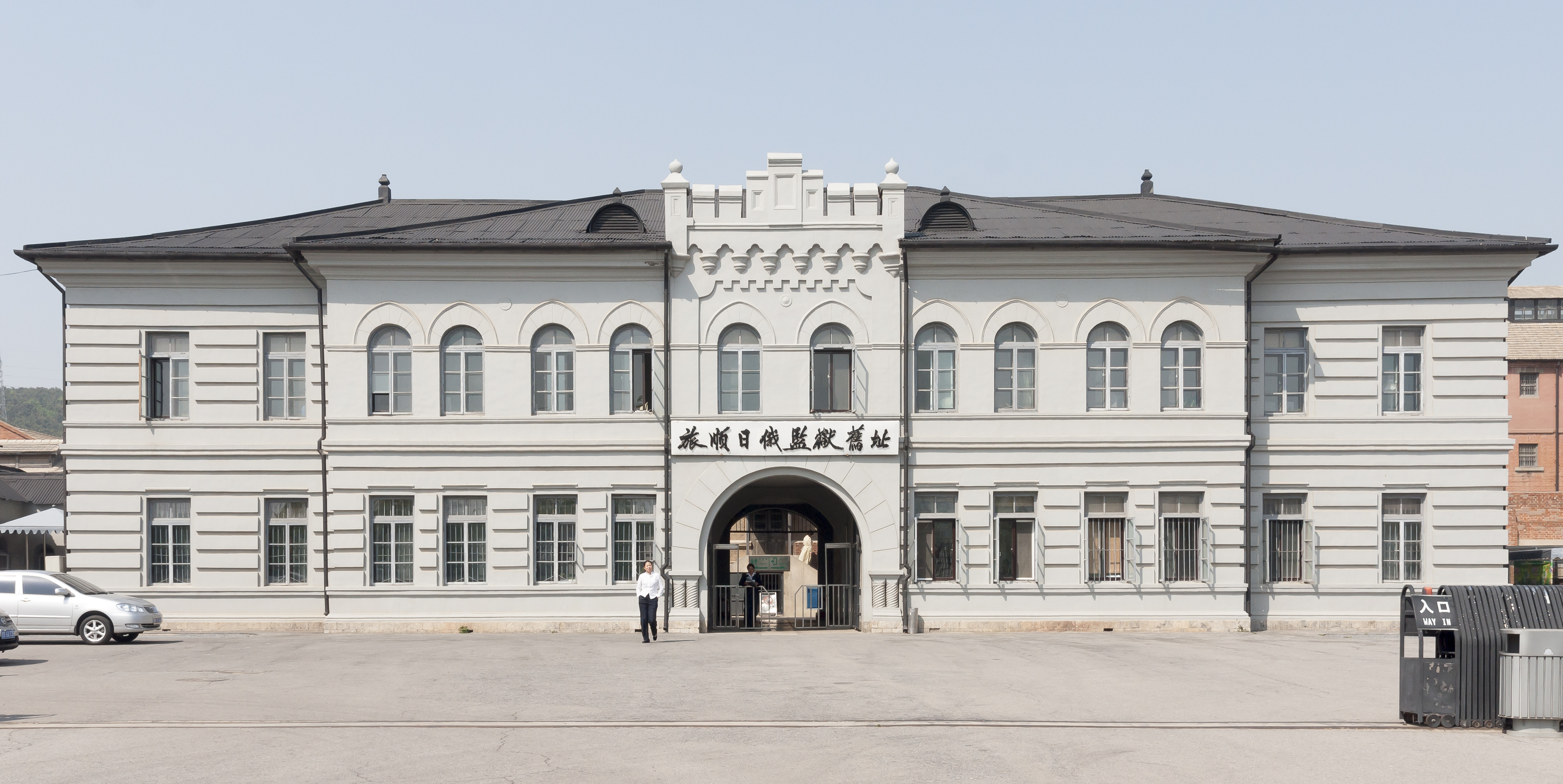 Lüshunkou, Liaoning, China: gate of the former Russian-Japanese Lüshun Prison